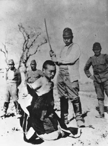 A young man who refused seeking women for beast soldiers is tied to be killed., (H.J.Timperley, "The Japanese Atrocities in China" , July 1938, p. 31)